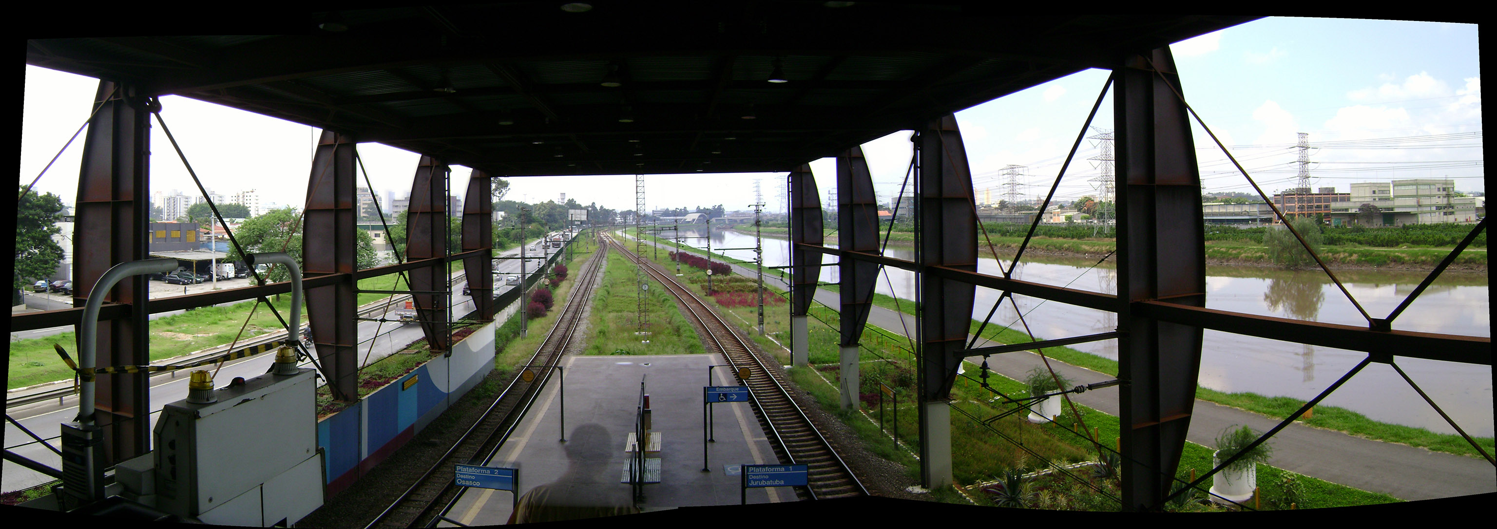 Photo of Santo Amaro Station